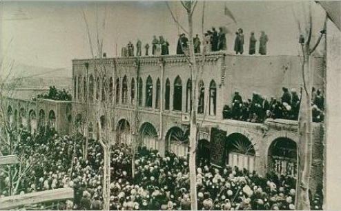 The proclamation of the Republic of Mahabad at the Chwar Chira Square on January 22, 1946.